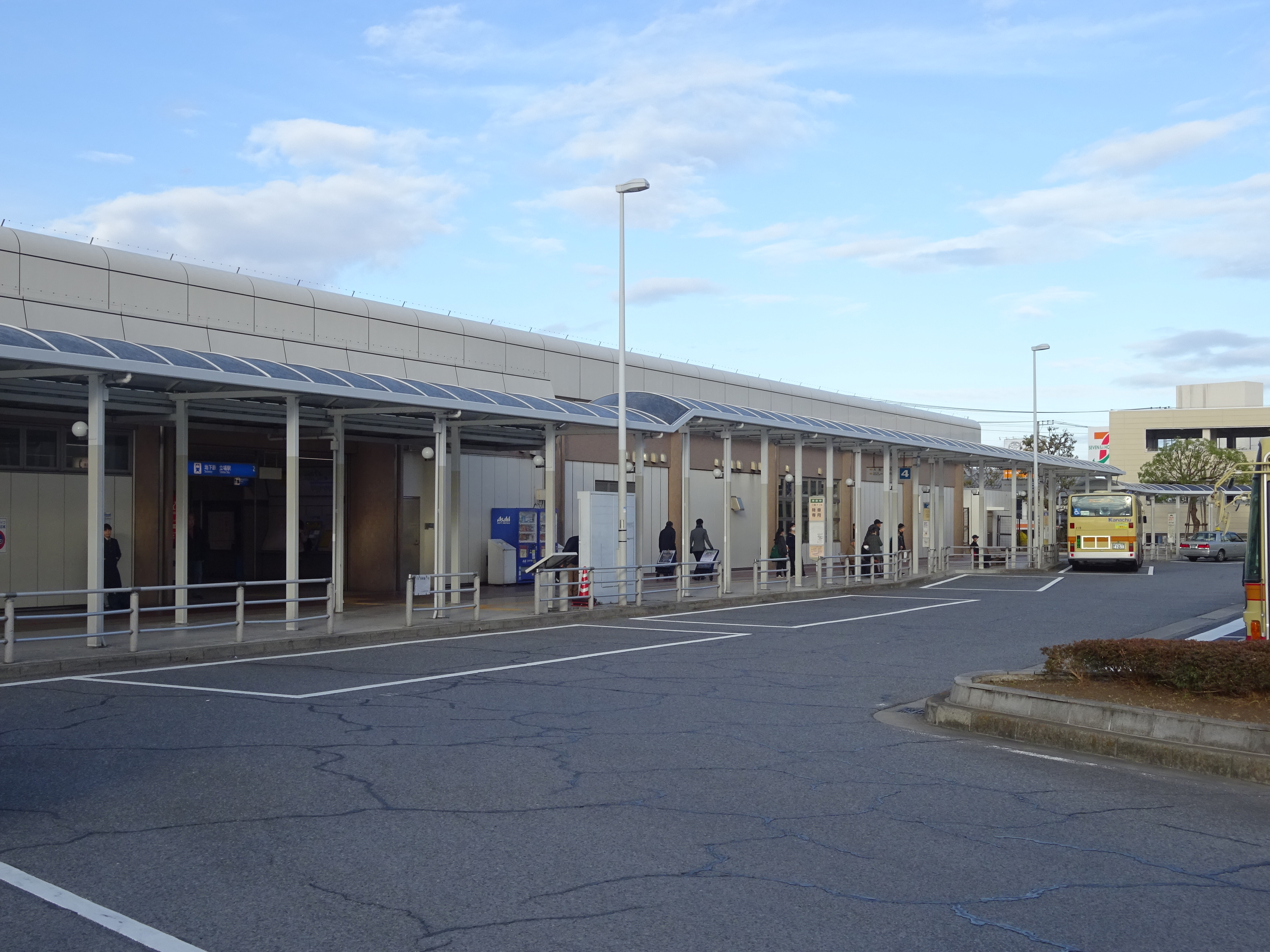 Tateba Station